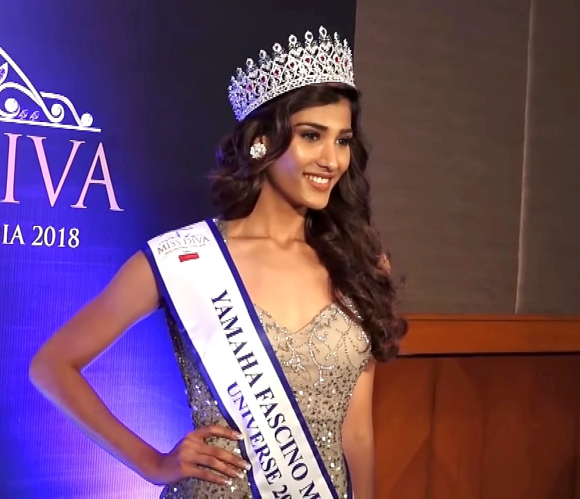 Nehal Chudasama, Miss Universe India 2018 snapped at a press conference.